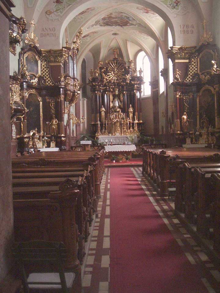 The inner side Franciscan Church in Pápa, Hungary